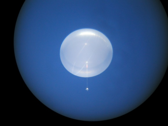 NASA and the National Science Foundation have successfully launched and demonstrated a newly designed super pressure balloon prototype that may enable a new era of high-altitude scientific research. The super-pressure balloon ultimately will carry large scientific experiments to the brink of space for 100 days or more. This seven-million-cubic-foot super-pressure balloon is the largest single-cell, super-pressure, fully-sealed balloon ever flown. When development ends, NASA will have a 22 million-cubic-foot balloon that can carry a one-ton instrument to an altitude of more than 110,000 feet, which is three to four times higher than passenger planes fly. (from NASA Press Release)